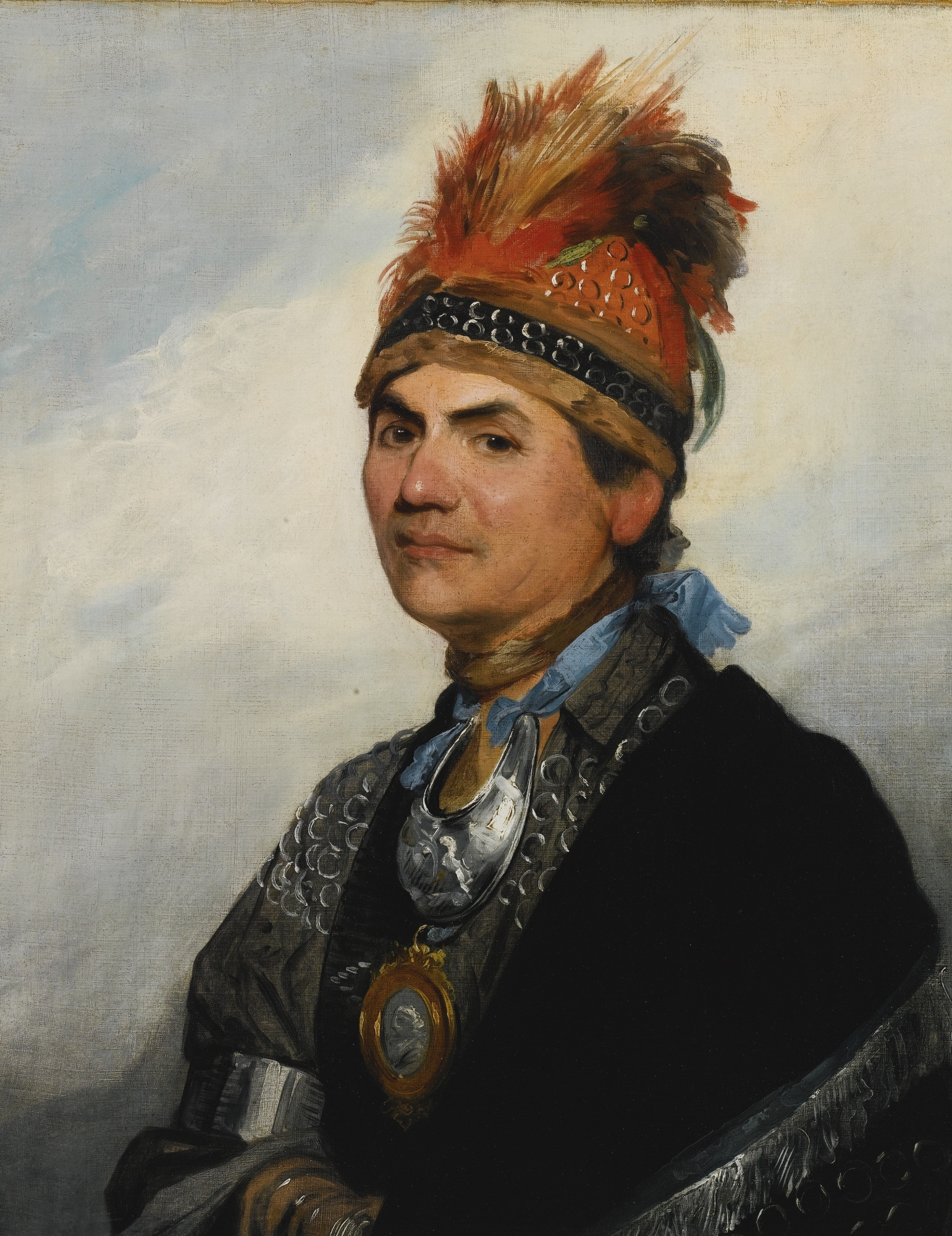 Depicted person: Joseph Brant